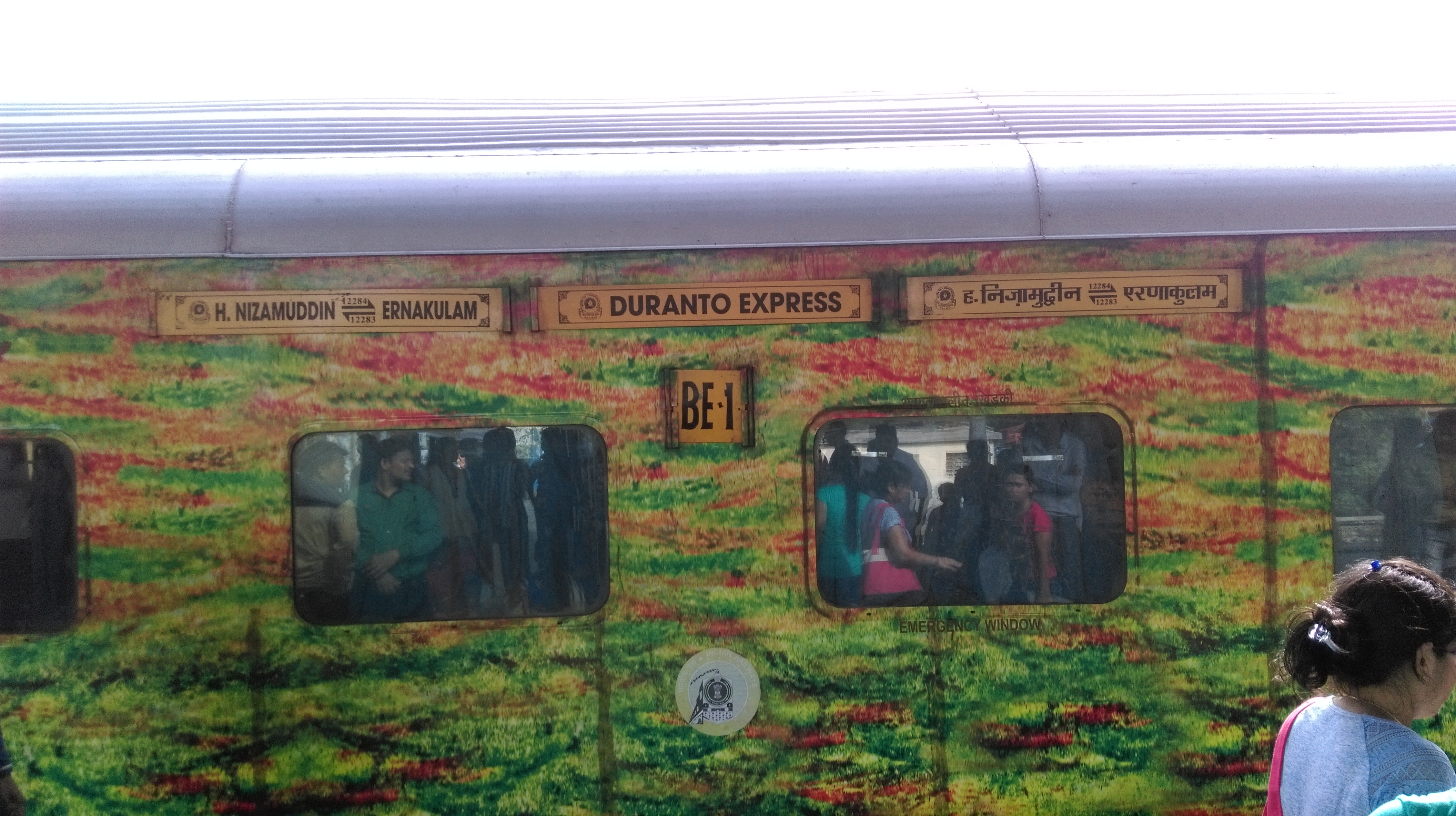 12284 - Duronto Express - AC 3 Tier extra coach